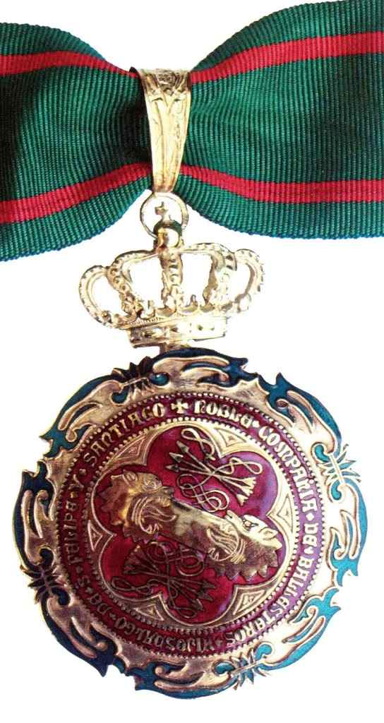 Trophy of a Knight of the Noble Compania